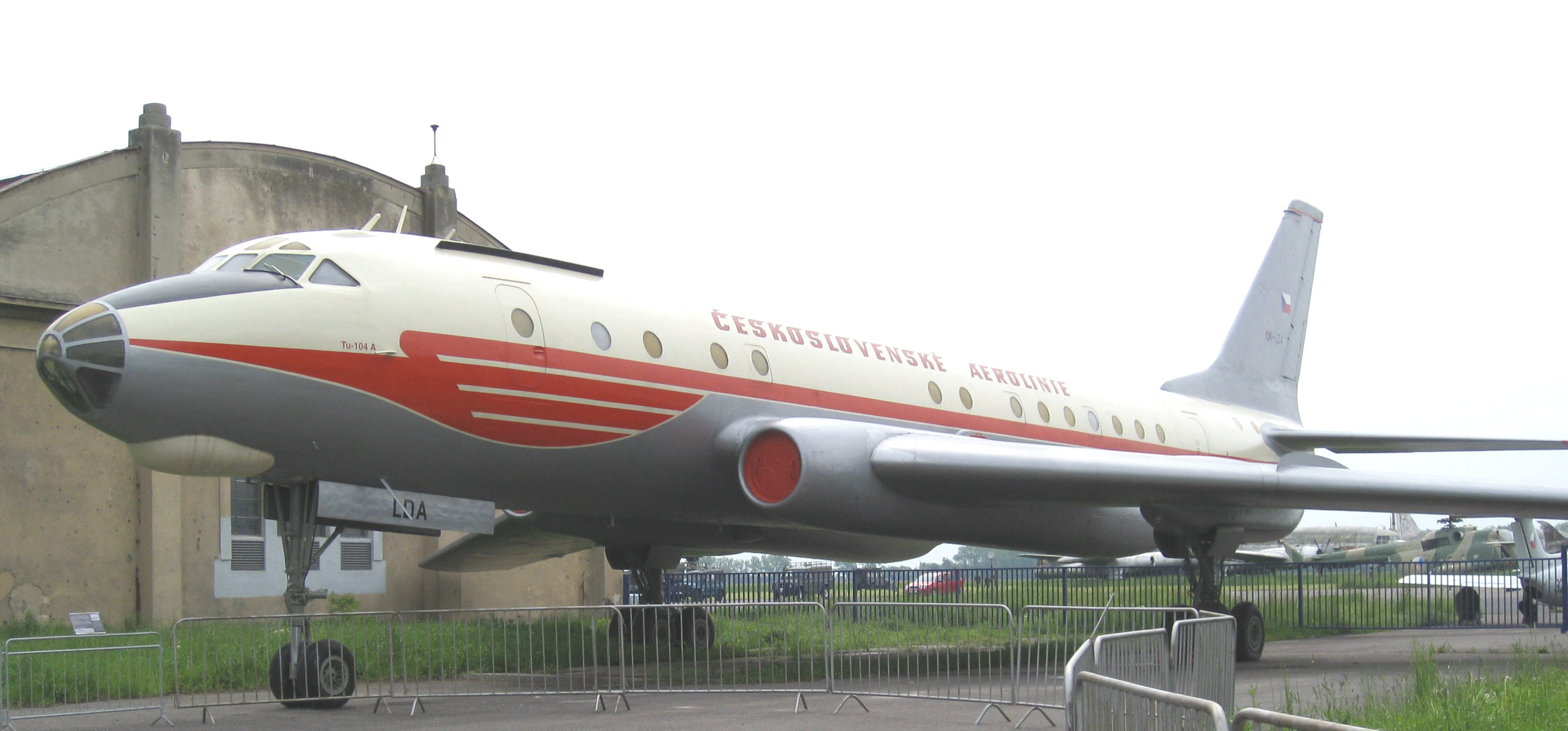 Czechoslovak Airlines Tupolev Tu-104A preserved at Prague Aviation Museum, Kbely